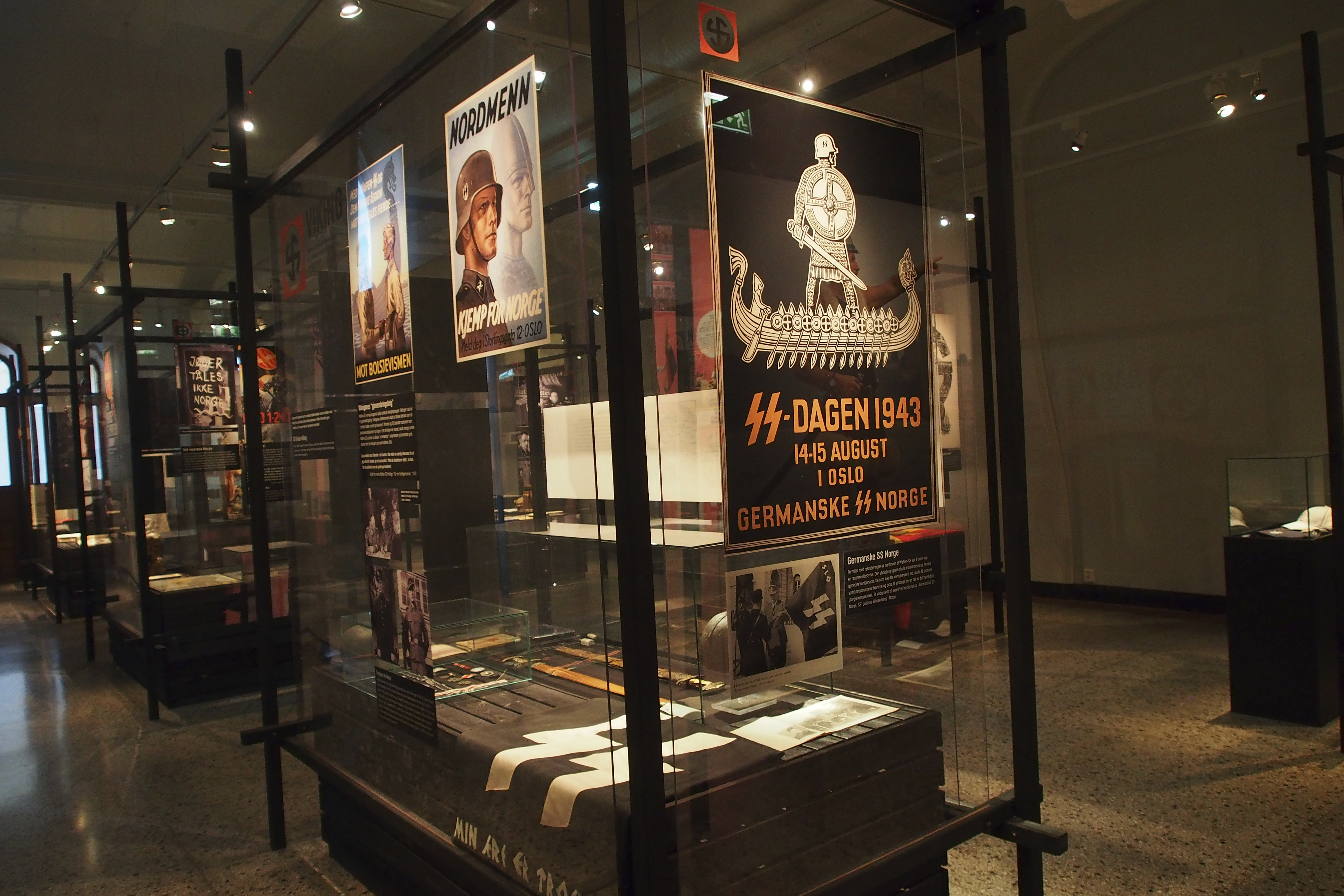 Norwegian World War 2 Nazi propaganda posters by Harald Damsleth for Nasjonal Samling. From the exhibition "JA VI ELSKER FRIHET / MINUS FEM" at Museum of Cultural History, Oslo, Norway May 16th – Dec 31st 2014. Exhibition curators: Lill-Ann Chepstow-Lusty and Terje Emberland from Center for Studies of the Holocaust and Religious Minorities. Photo by Lill-Ann Chepstow-Lusty. OLYMPUS DIGITAL CAMERA